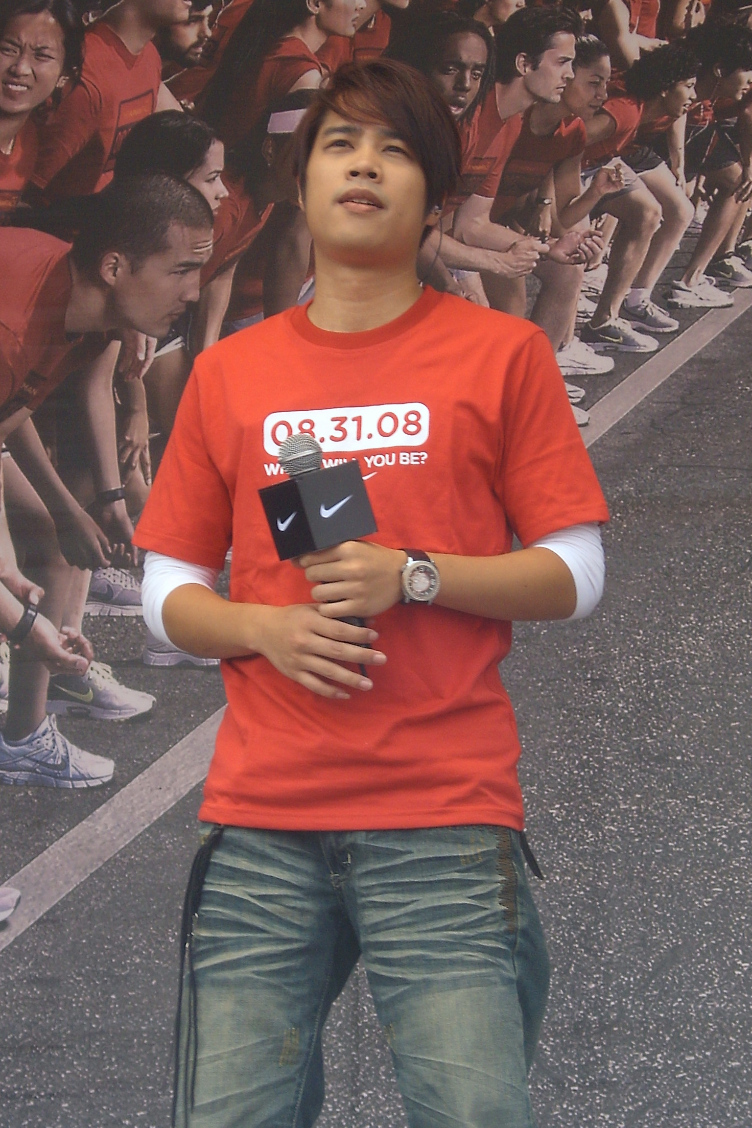 Chien-chung "TANK" Lu, a vocalist from Taiwan. 中文（台灣）: 「TANK」呂建中，台灣知名歌手。 Bân-lâm-gú: TANK(Lū Kiàn-tiong), Tâi-uân tshut-miâ ê kua-tshiú. 「TANK」呂建中，台灣出名的歌手。